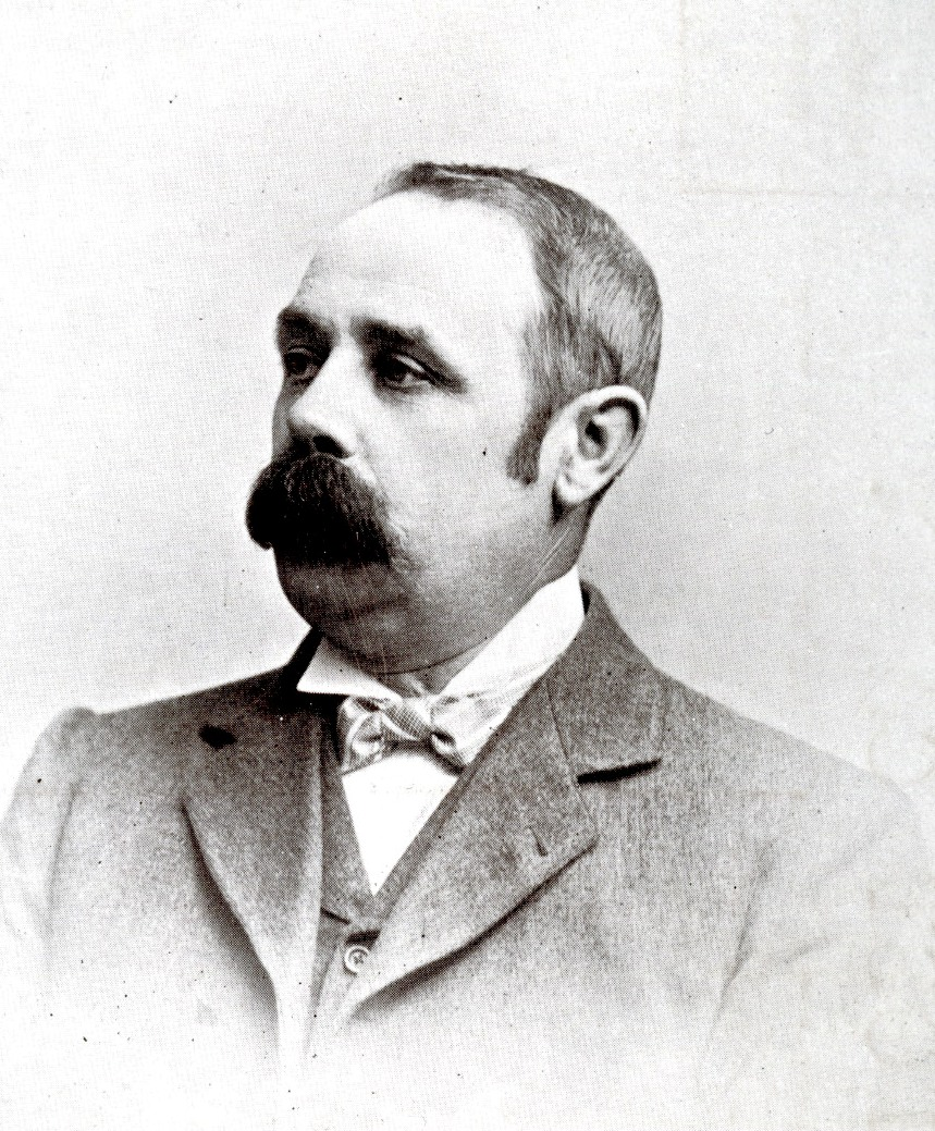 James Edwin Williams (died 3 July 1917) was the first general secretary of the National Union of Railwaymen from 1913 to 1916. He was previously general secretary of the Amalgamated Society of Railway Servants.[1] He is buried in Southgate Cemetery along with his wife Sarah Jane (died 22 June 1932).